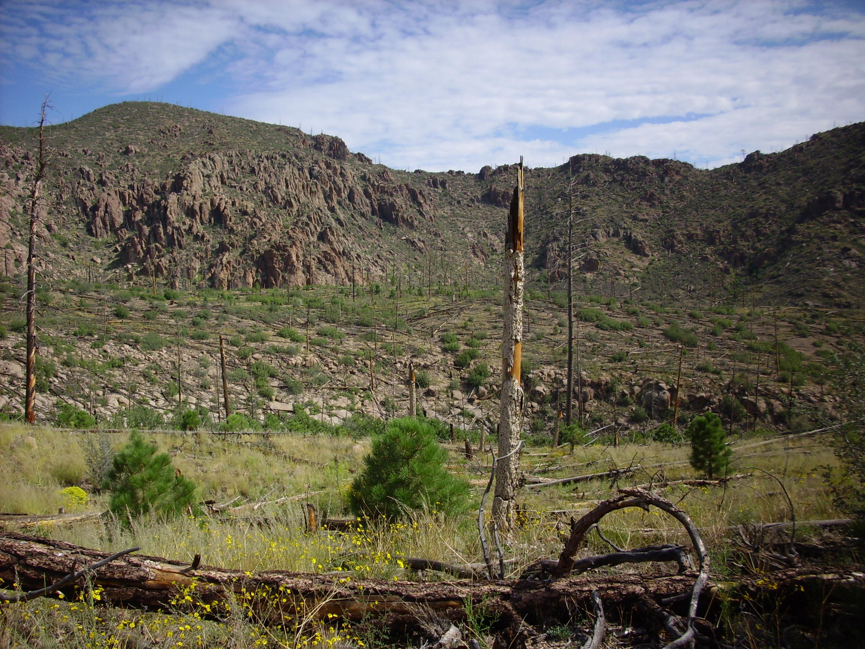 This image shows Guaje Ridge, an eroded flow of the Tschicoma Formation located northwest of Los Alamos, New Mexico.